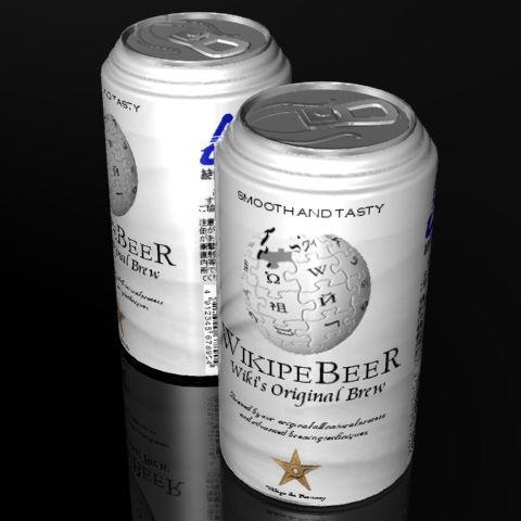 Beer cans 'Wikipe Beer' ; original CG.